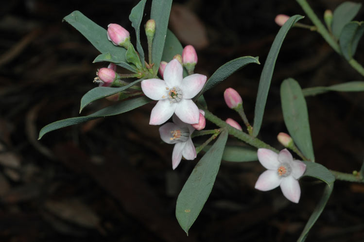 Philotheca myoporoides subsp. brevipedunculata in the Australian National Botanic Gardens, A.C.T.